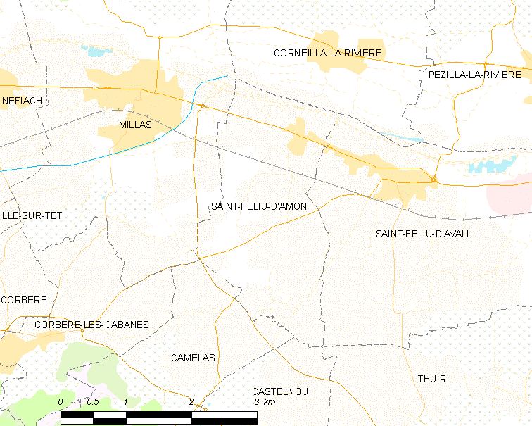 Map of French municipality